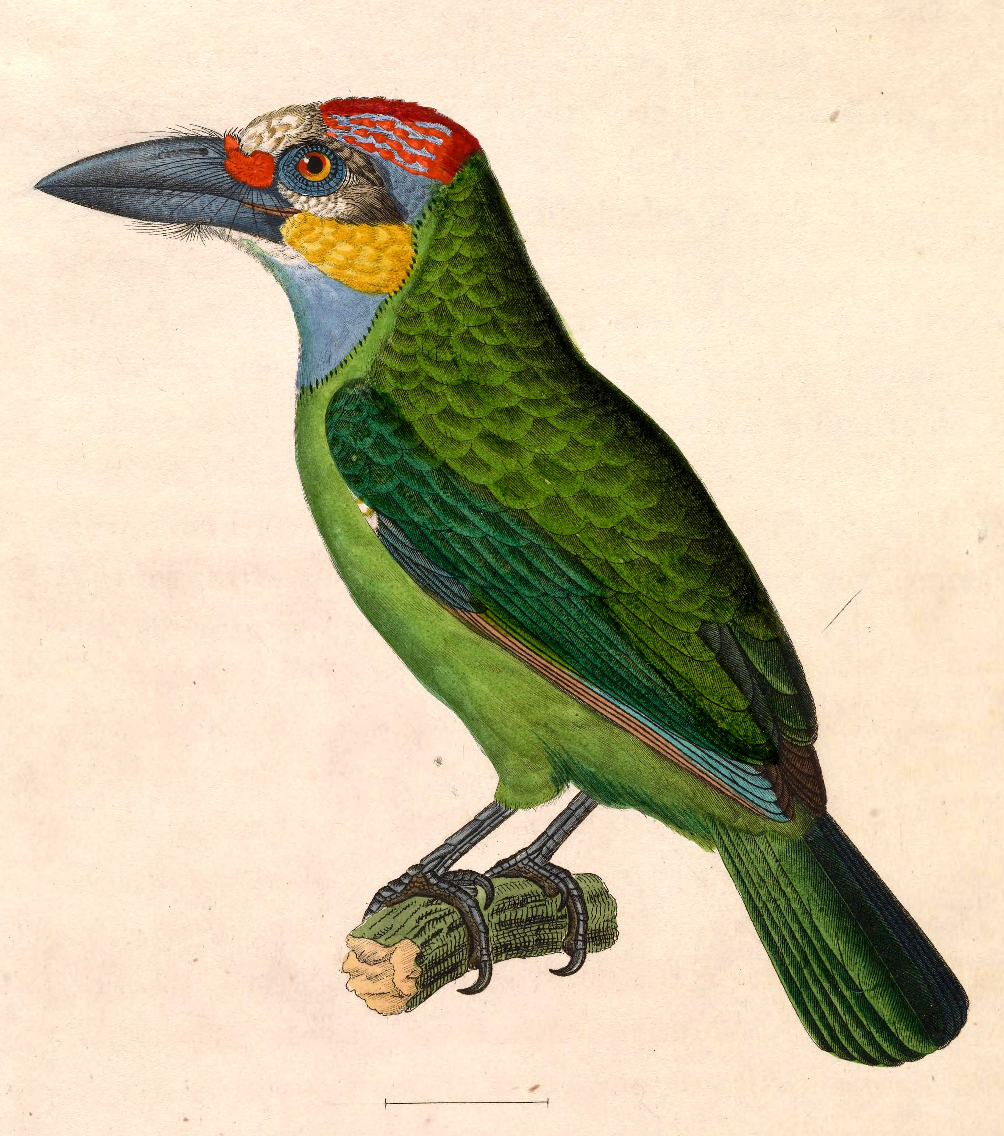 « Bucco chrysopogon » = Megalaima chrysopogon (Golden-whiskered Barbet) - adult